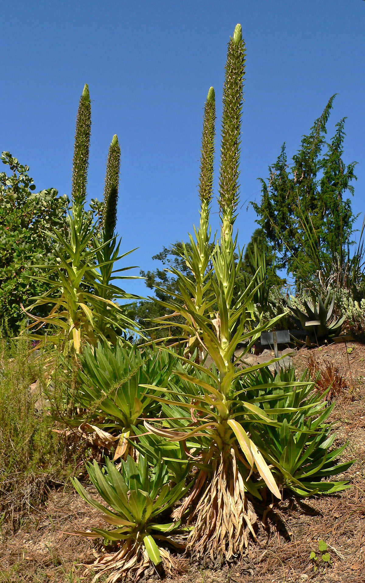 Lobelia aberdarica at the University of California Botanical Garden, Berkeley, California